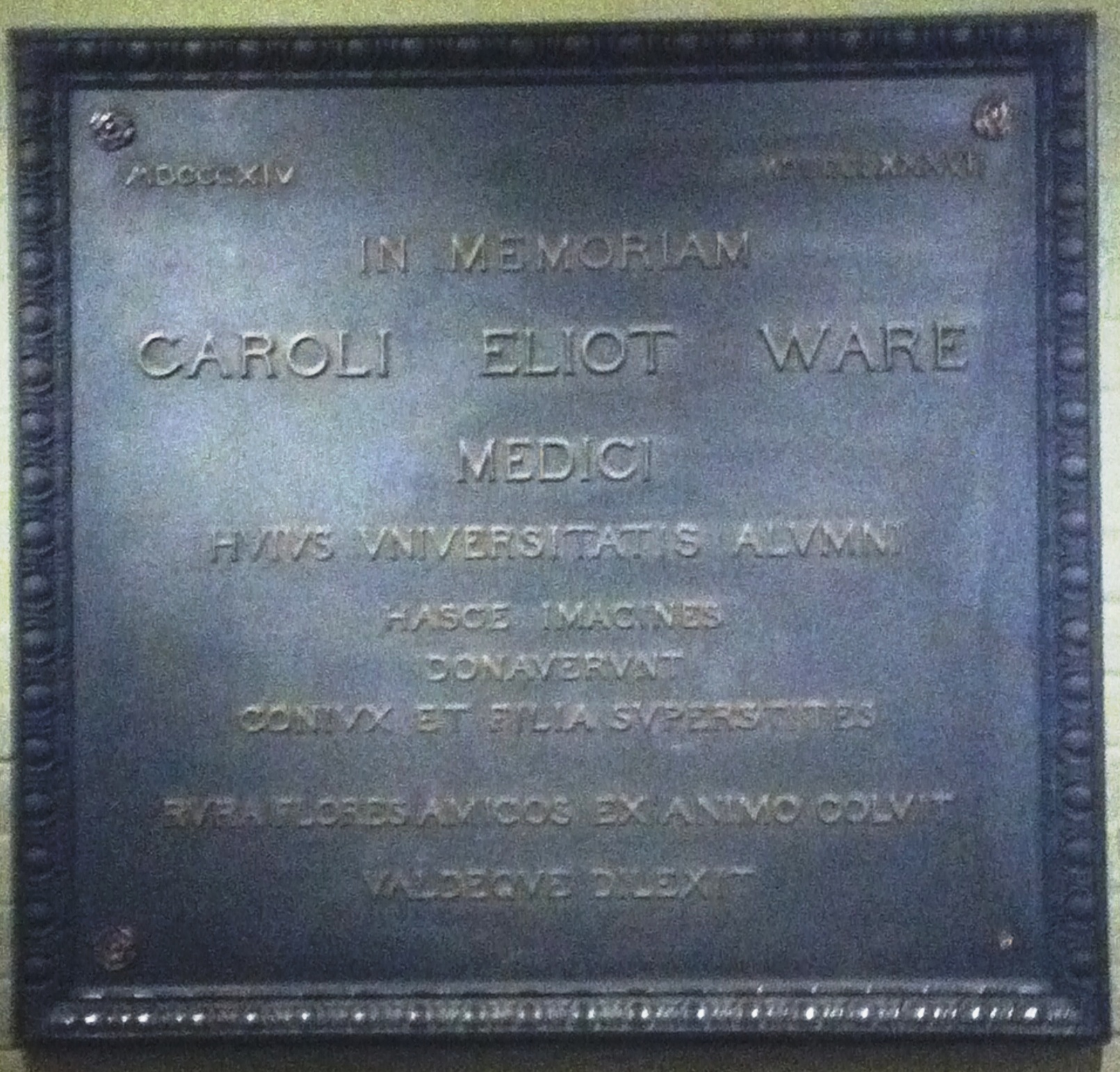 Plaque outside the Harvard Museum of Natural History's Glass Flowers exhibit. In